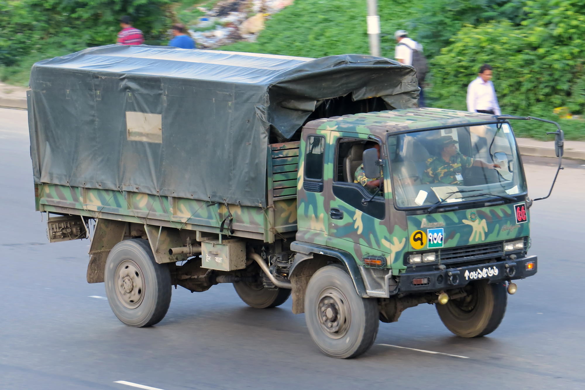 Arunima Bolyan trucks are rebadged Isuzu FSS trucks assembled by BMTF. Shot taken at airport road, 2016.